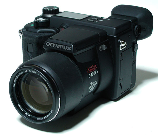 Olympus E-100RS